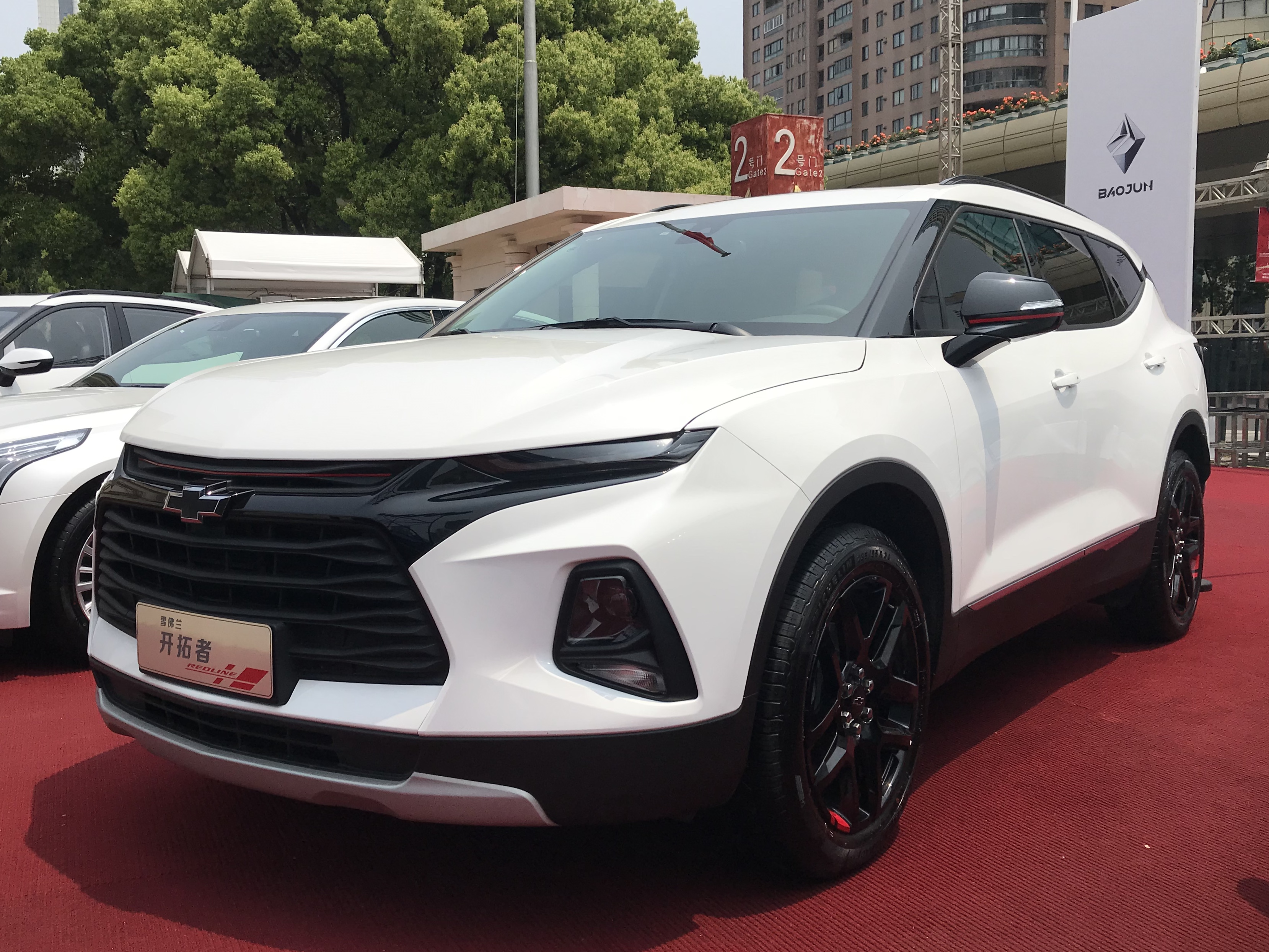 Chevrolet Blazer in China